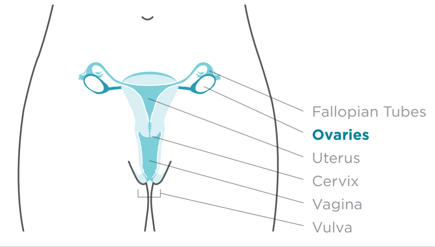 A CDC image altered to highlight the location of ovaries